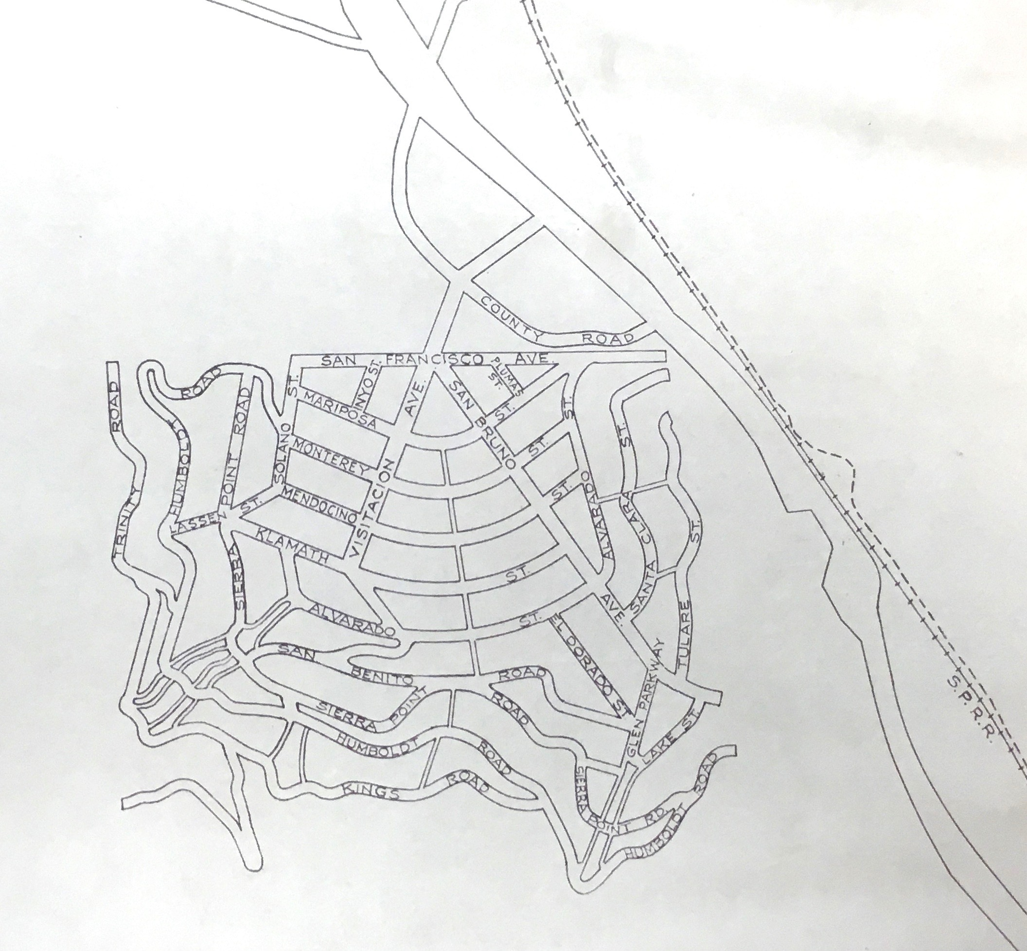 Recorded street as of 1938